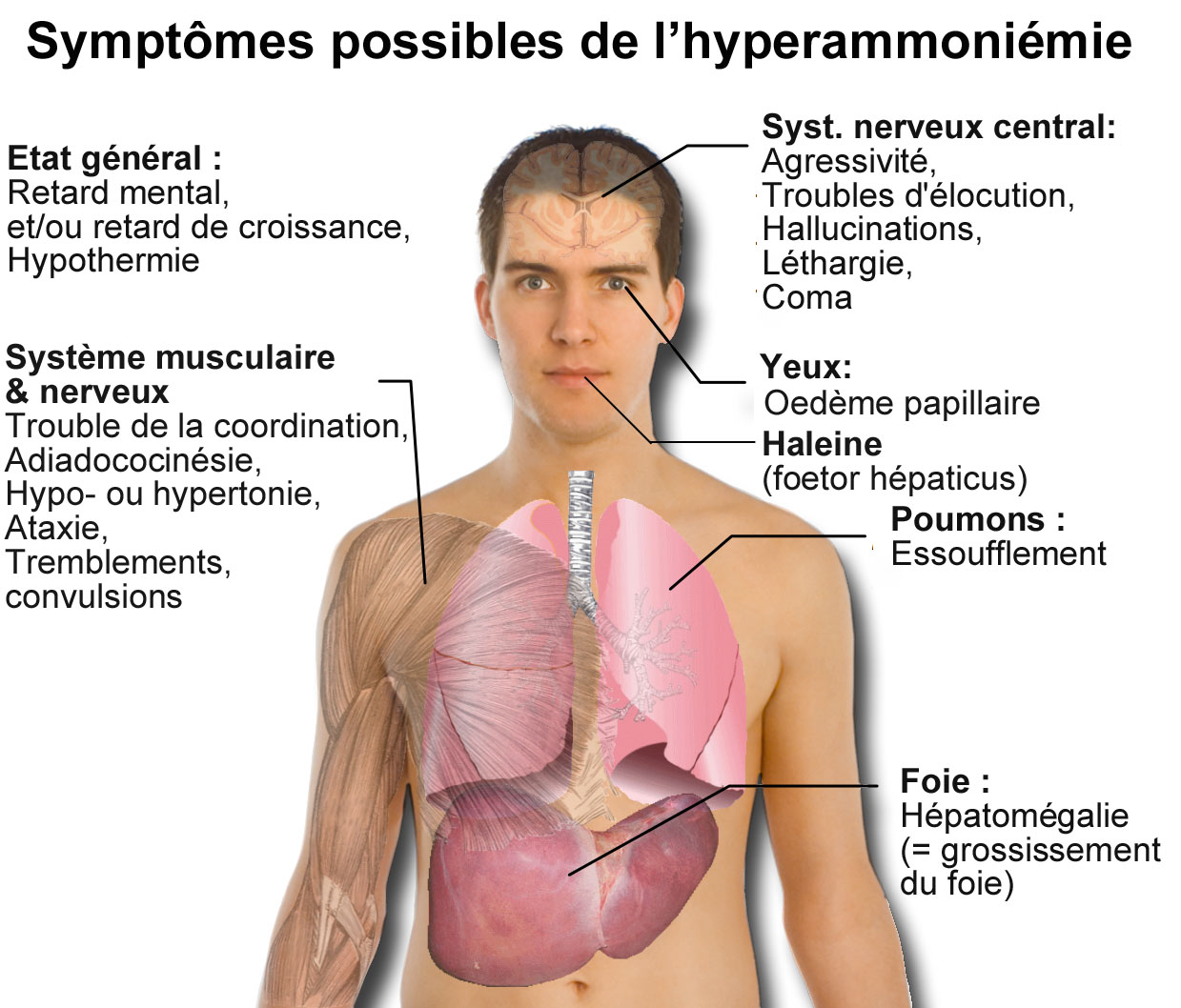 Main symptoms of hyperammonemia (See Wikipedia:Ammonia#Ammonia's role in biological systems and human disease).